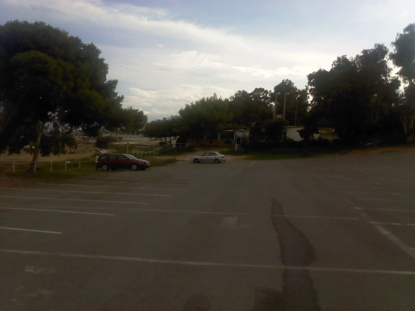 Seaside Agios Andreas Nea Makri